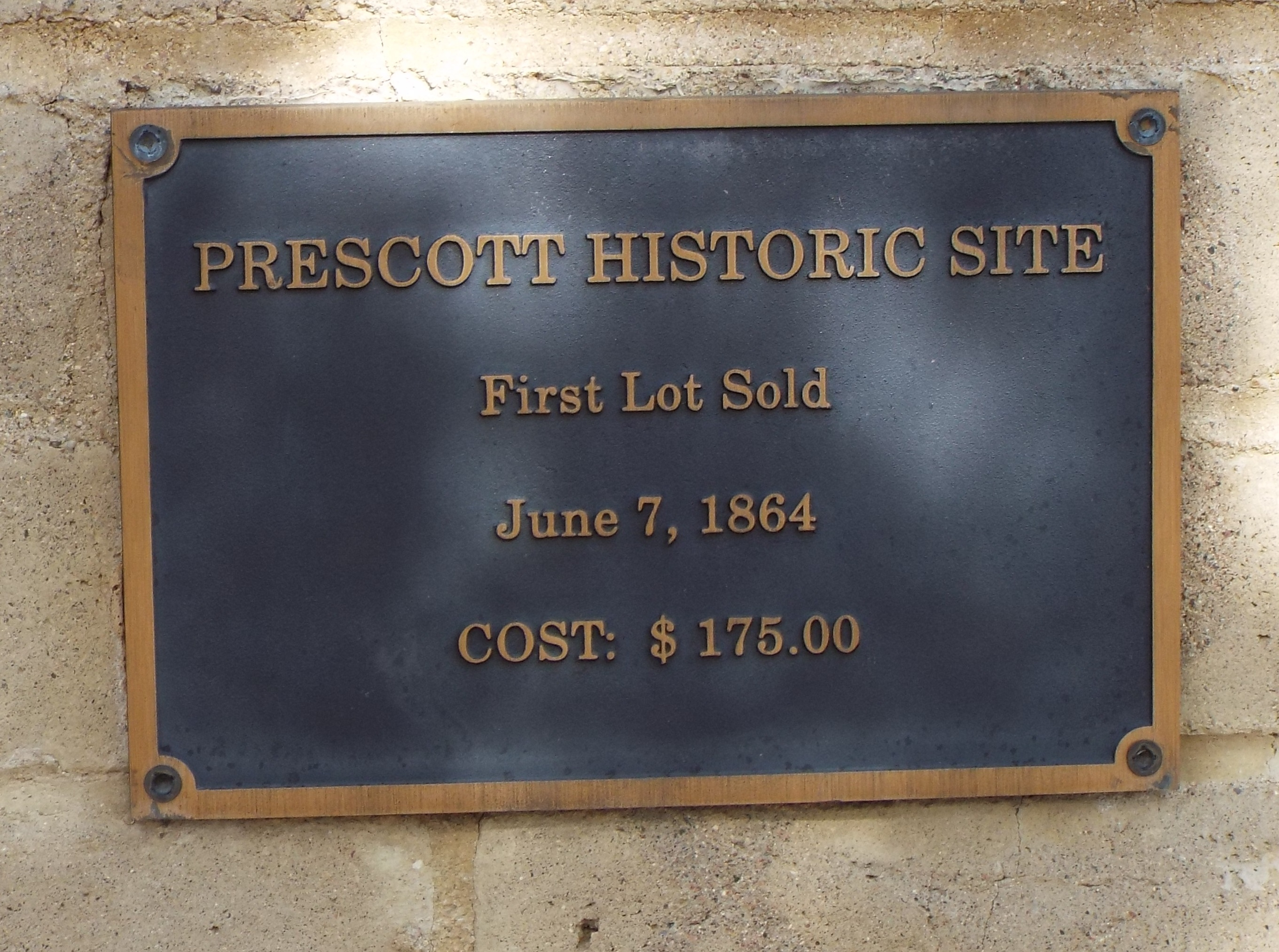 Prescott Historic Site-First Lot Sold-June 7, 1864-Marker in Prescott, Az